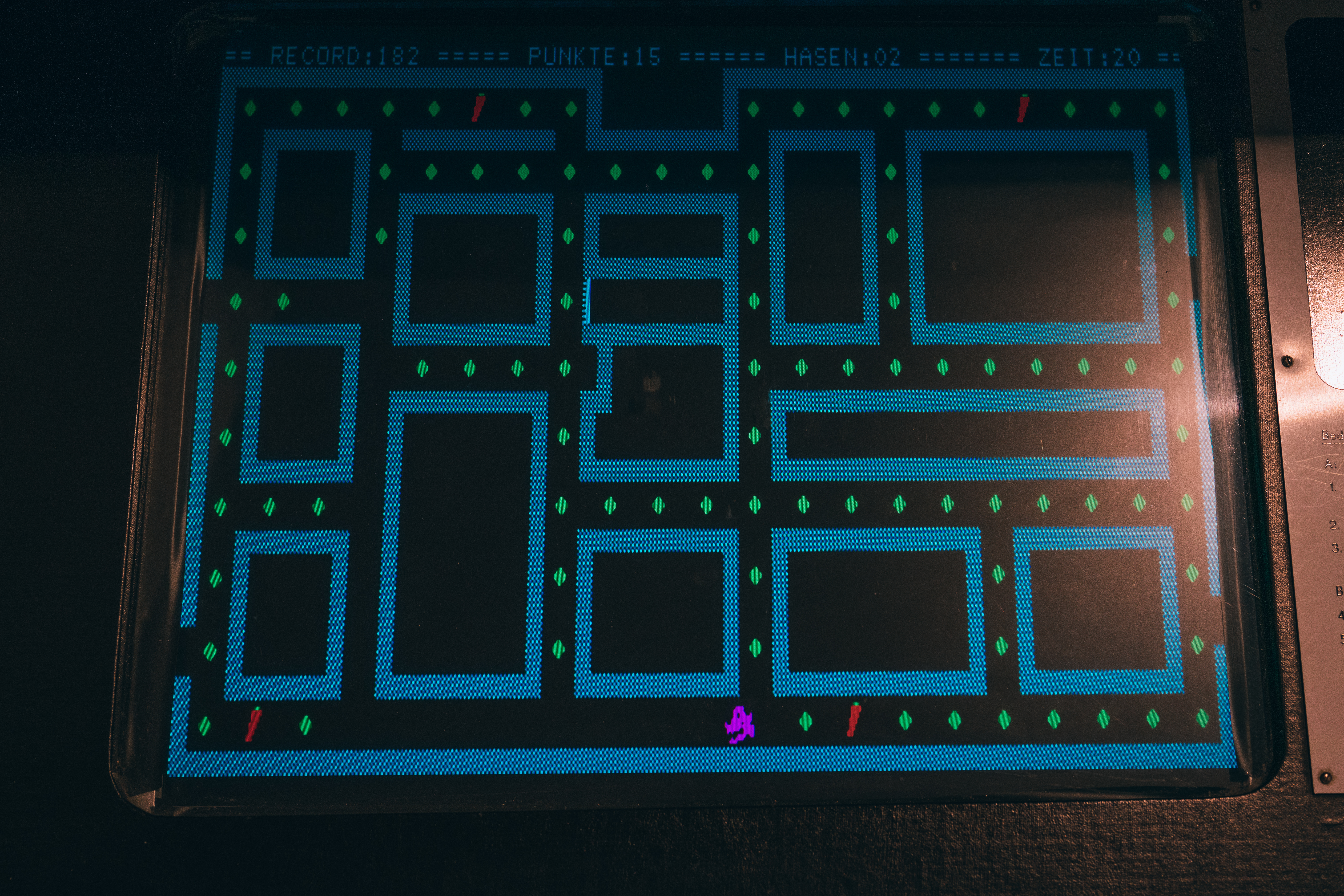 Polyplay